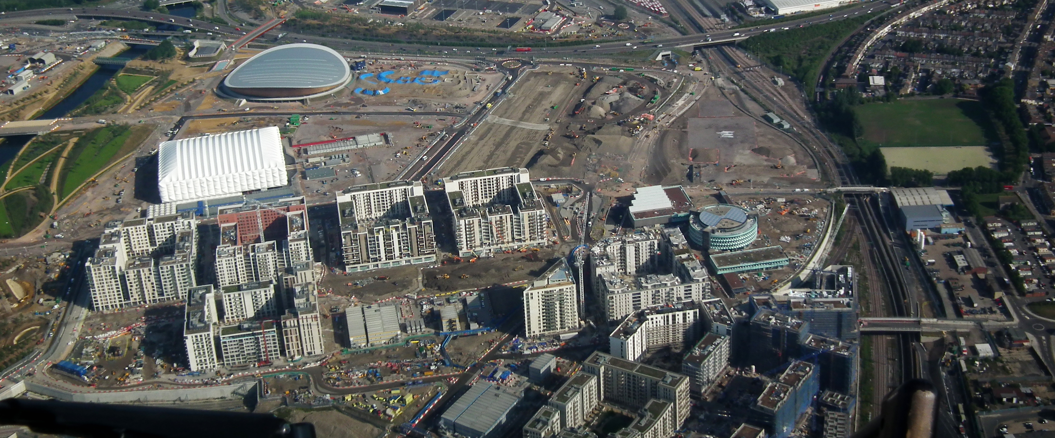 Construction of Olympic Park, London — June 2011. Aerial photo of the Olympic Village, and basketball venue and velodrome in the background.